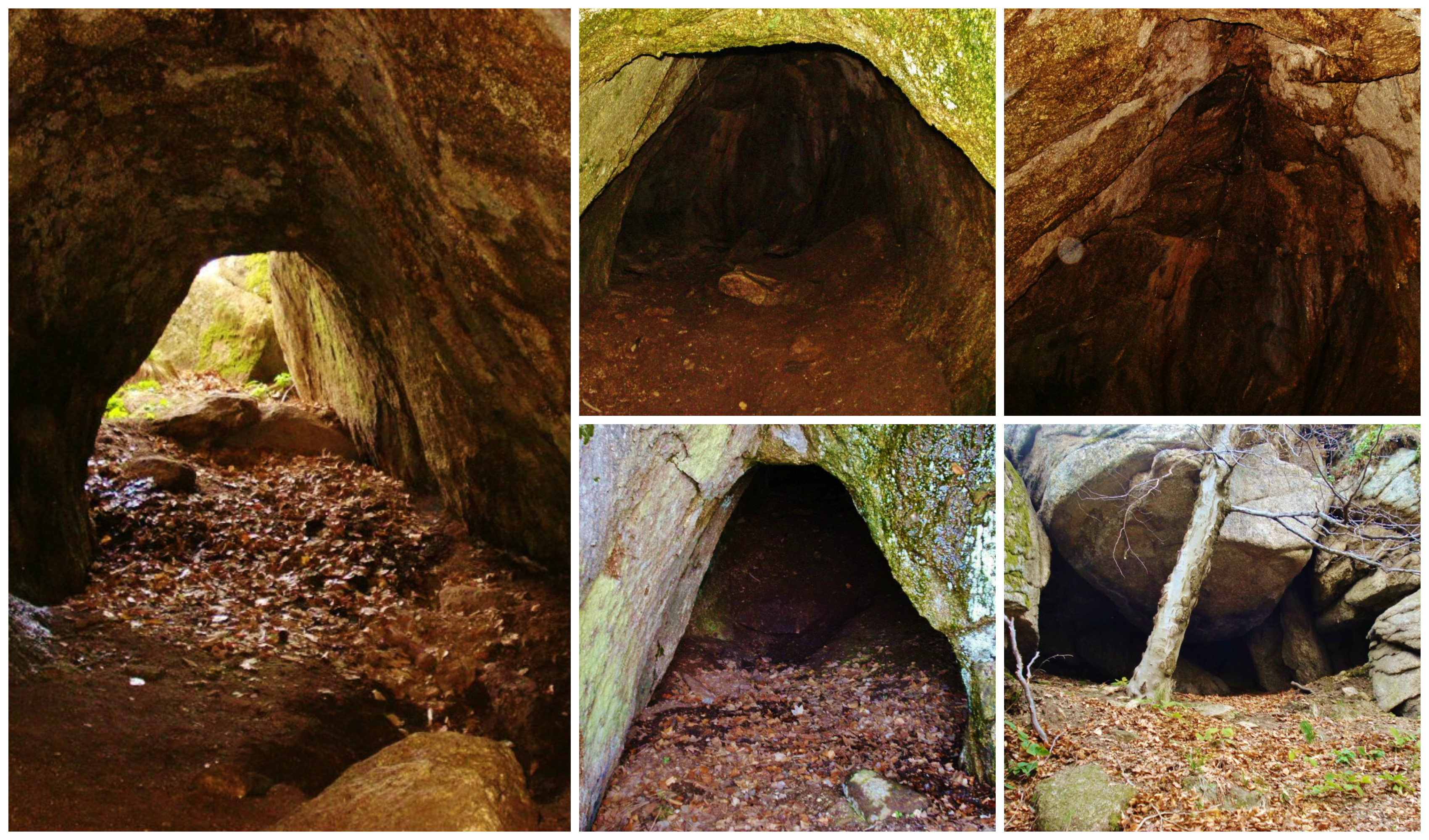 Womb Cave Kozi Gramadi Starosel Bulgaria